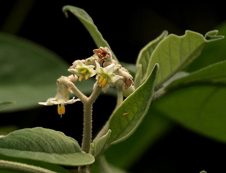 Solanum erianthum- Big Eggplant, China Flowerleaf, Mullein Nightshade, Potato-Tree, Potatotree, Tobacco Nightshade, Tobacco-Tree - in Hyderabad, India.